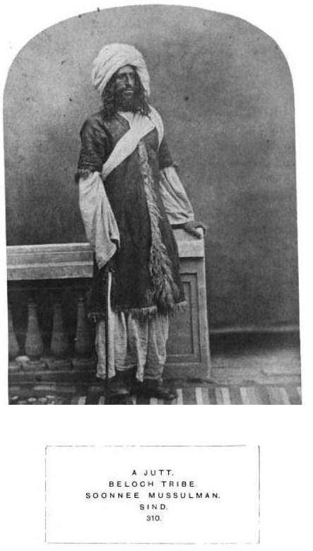 A Jutt of the Beloch tribe, Sind, 1872